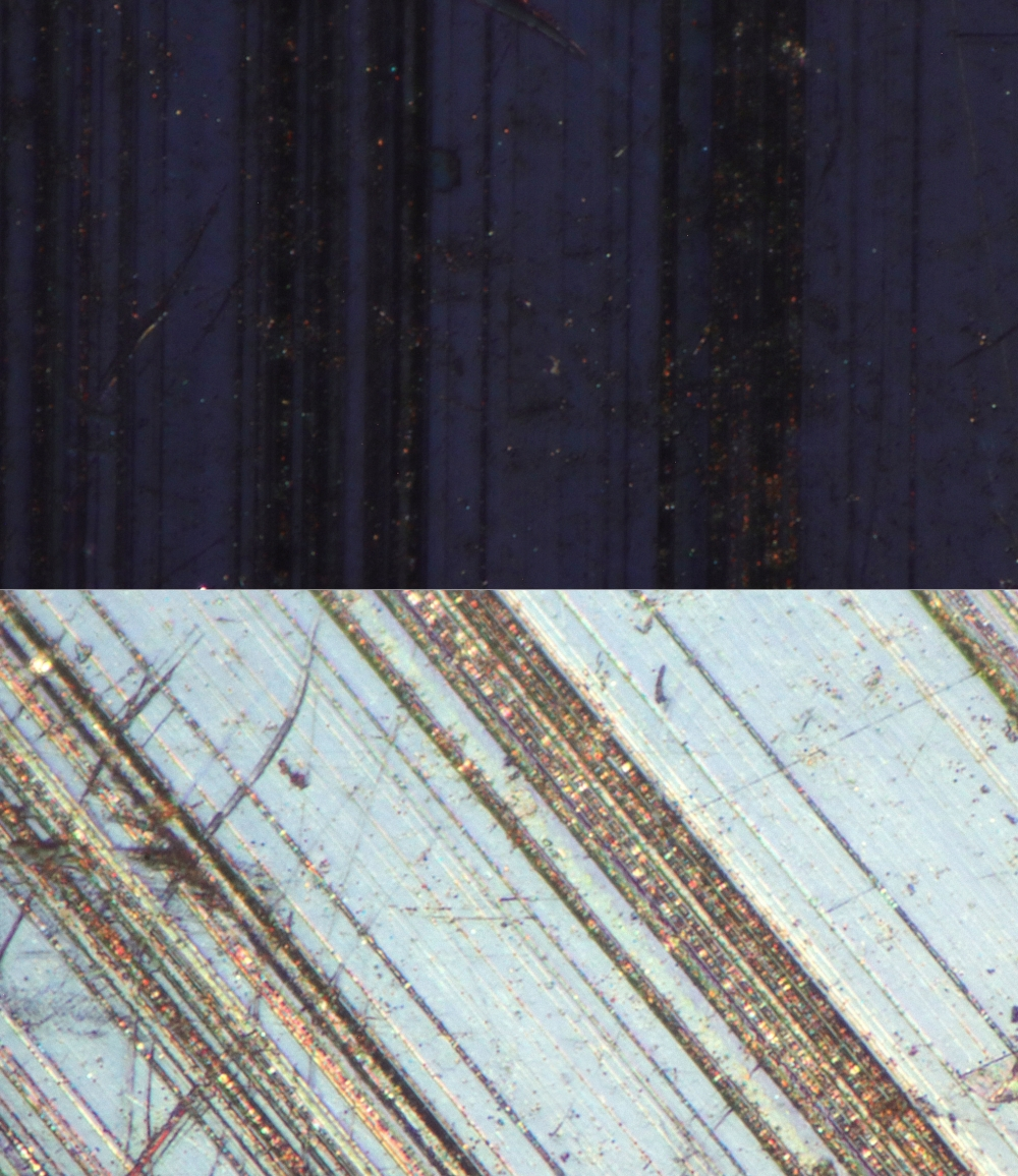 Stibnit, Reflexionspleochroismus